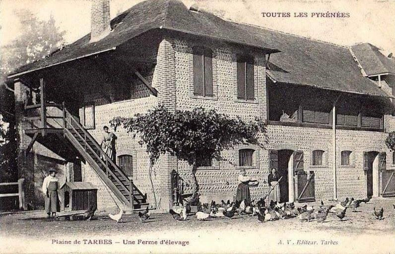 Old livestock farm, today student house of École nationale d'ingénieurs de Tarbes. André Villatte editor, Tarbes